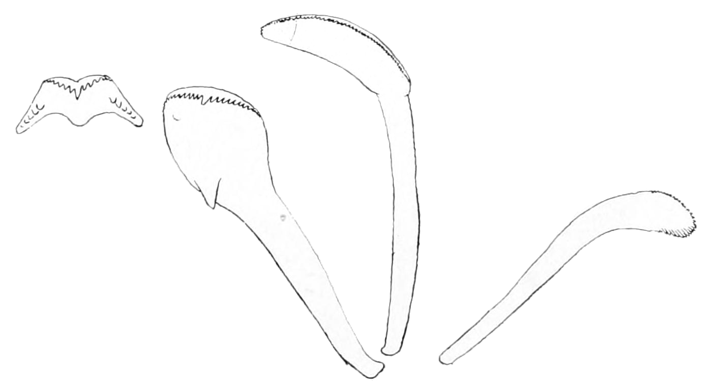 Drawing of radular teeth of Clappia umbilicata, synonym Clappia clappi from Duncan's Riffle, Coosa River, Alabama.